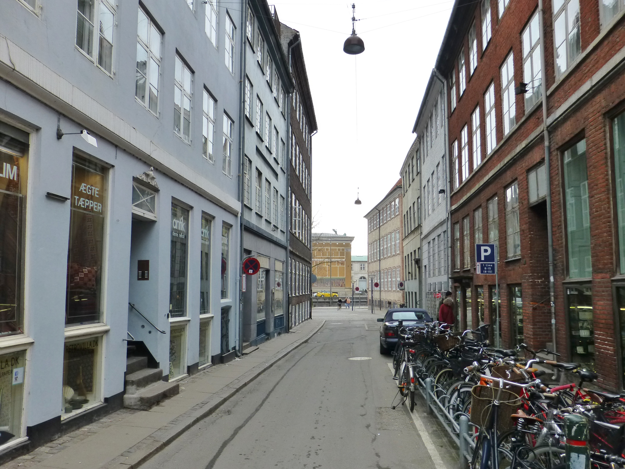 The street Naboløs in Indre By in Copenhagen.